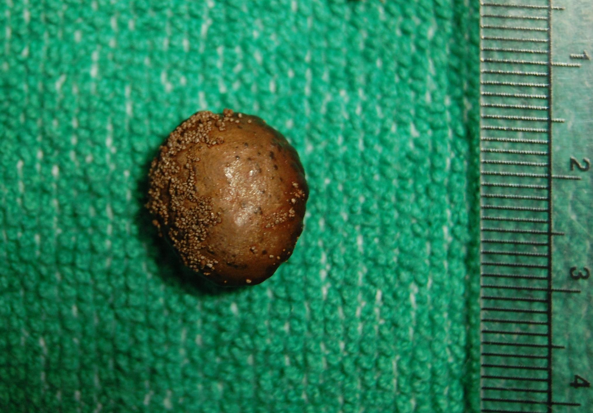 A bladder stone removed from a bladder diverticulum. Incident finding during transvesical prostatectomy. Measured 14 millimeter in diameter.